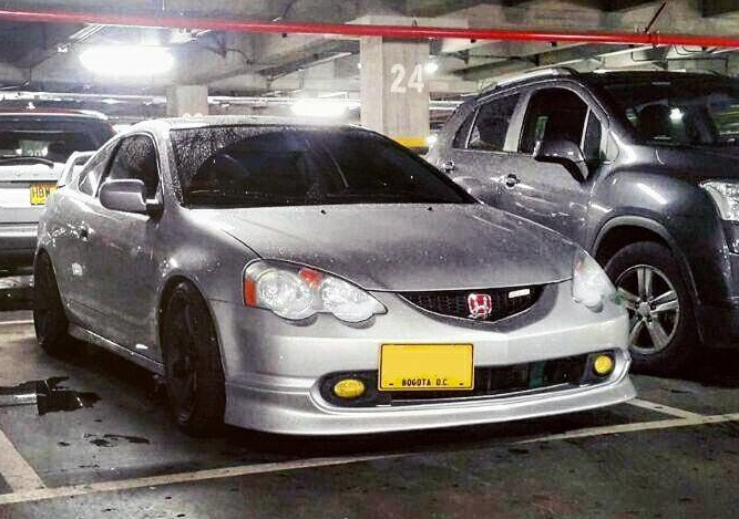 auto deportivo